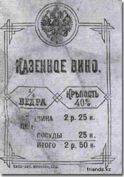 Vodka bottle label from the Russian Empire, made (or just bottled?) in St.Petersburg. The government exercised full monopoly over hard liquor production and distribution, and the title proudly shouts 'Government Wine'. This is a very large bottle by today's standards, 1/4 vedro or 3.07 liters